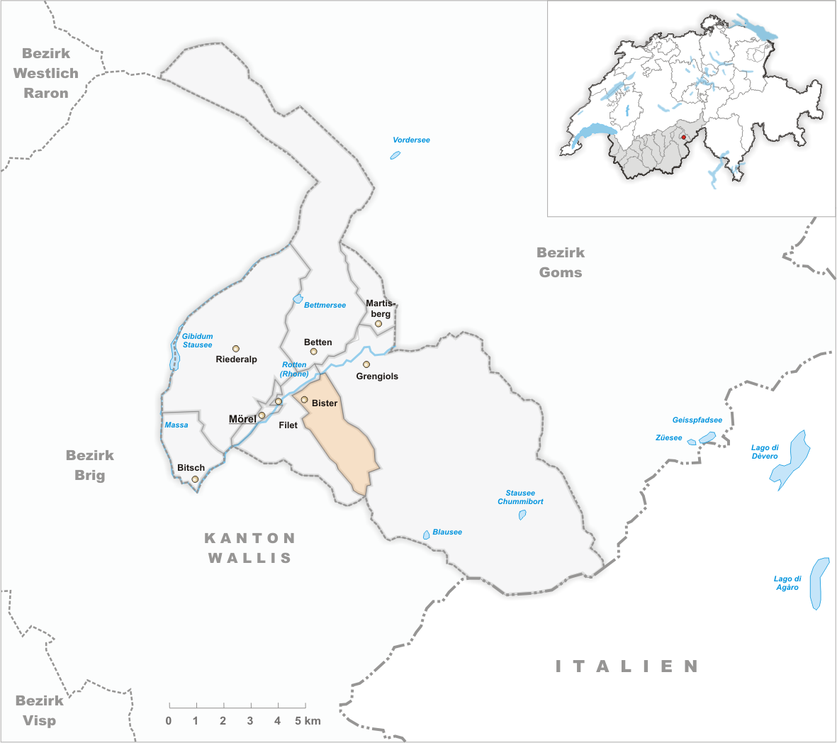 Municipality Bister